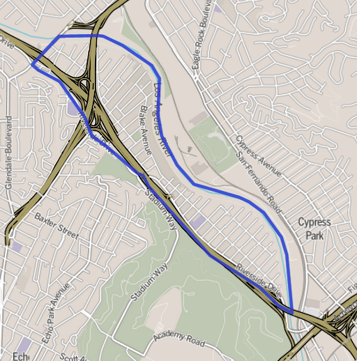 Map of Elysian Valley, California, as delineated by the Los Angeles Times Other information Boundary map as drawn by the Los Angeles Times on a CC-by-SA background. Note at bottom right of map on the L.A. Times website noted above says "CC-by-SA" (which gives permission to use the map). There is a link there to which explains the meaning thereof. The base map is credited to The Times spells all this out at